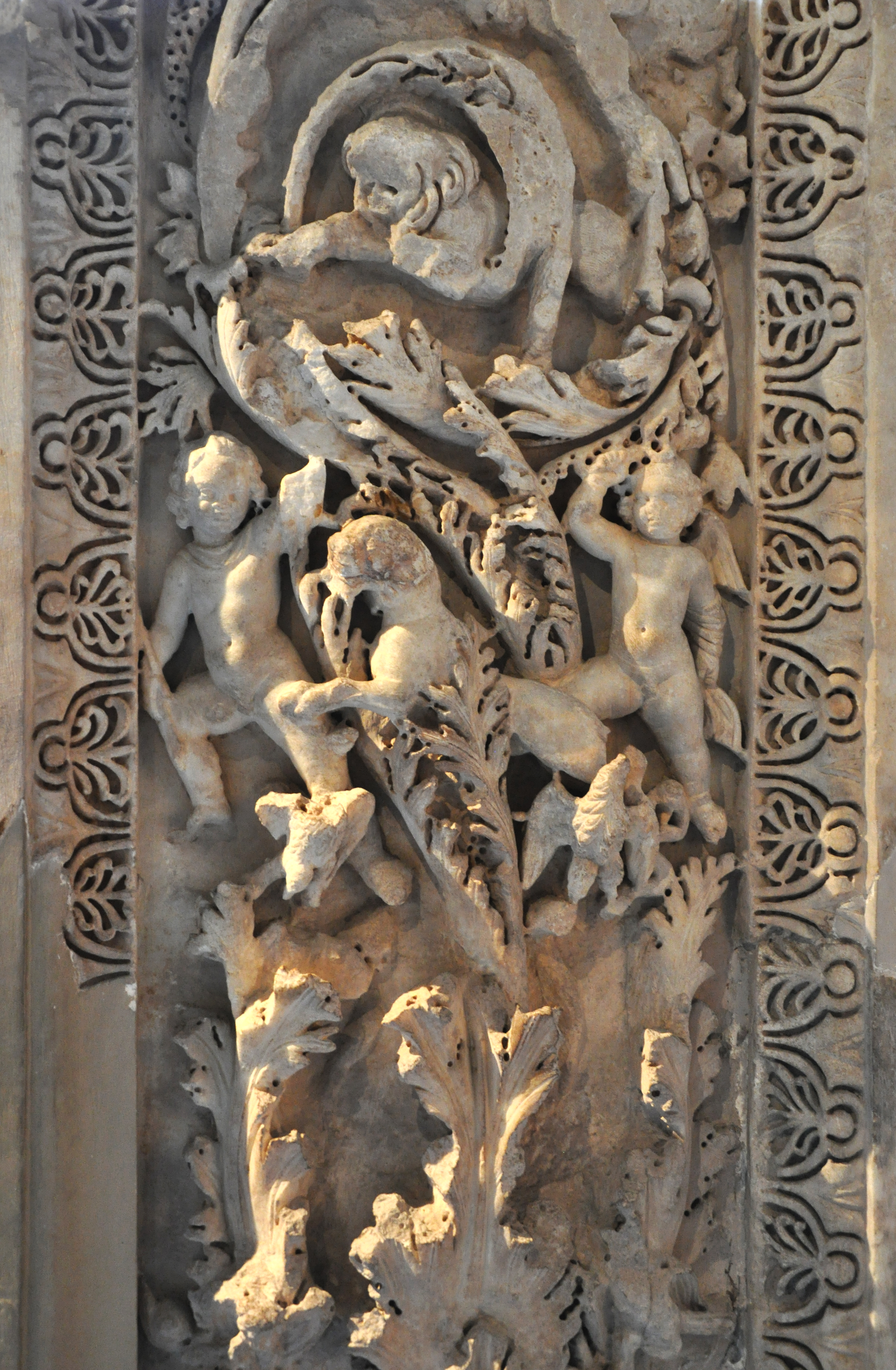 A panel from Aphrodisias, Turkey